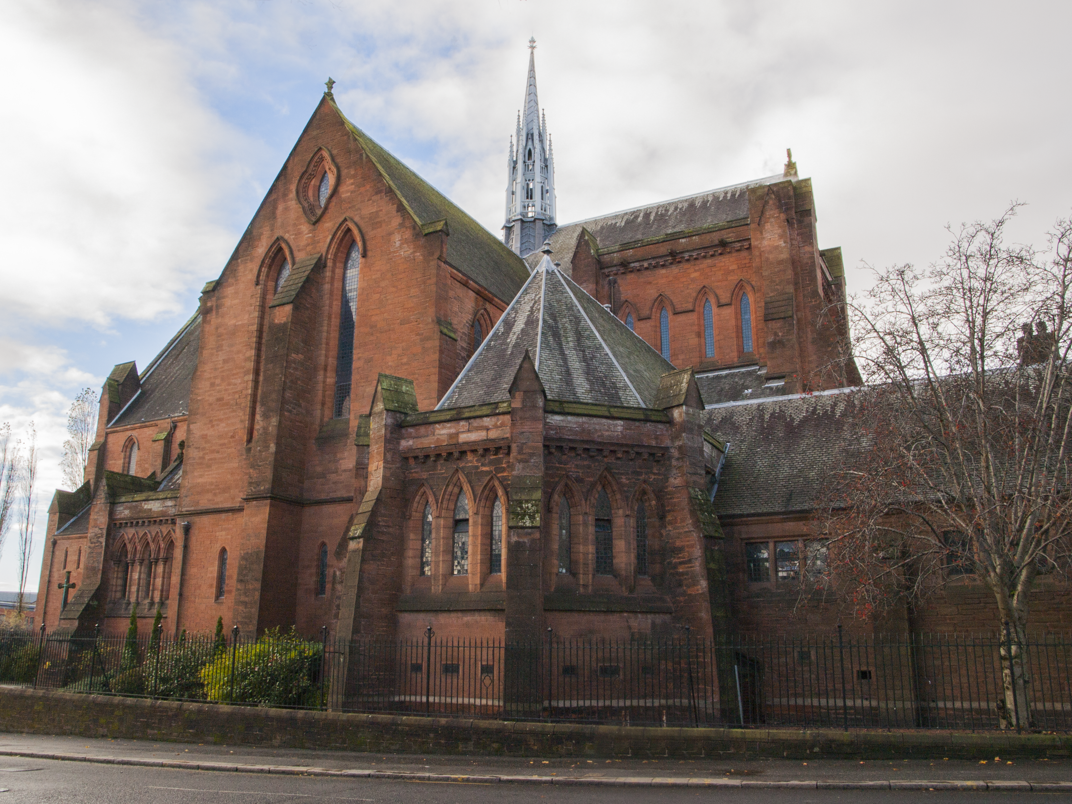 Photo of the west facing side of the Barony Hall